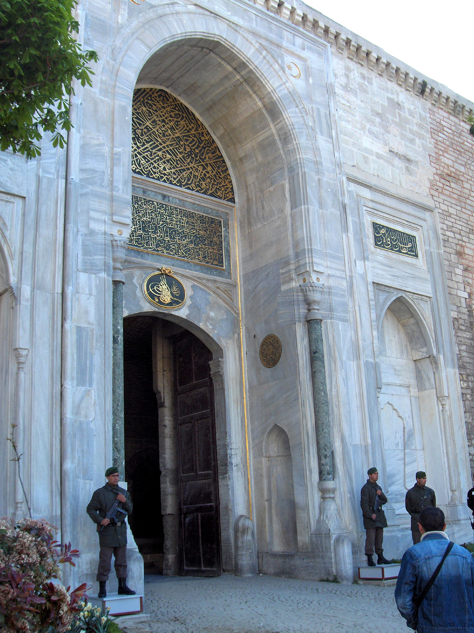 Bab-i Hümayun, entrance gate to the Topkapi Palace, Istanbul, Turkey